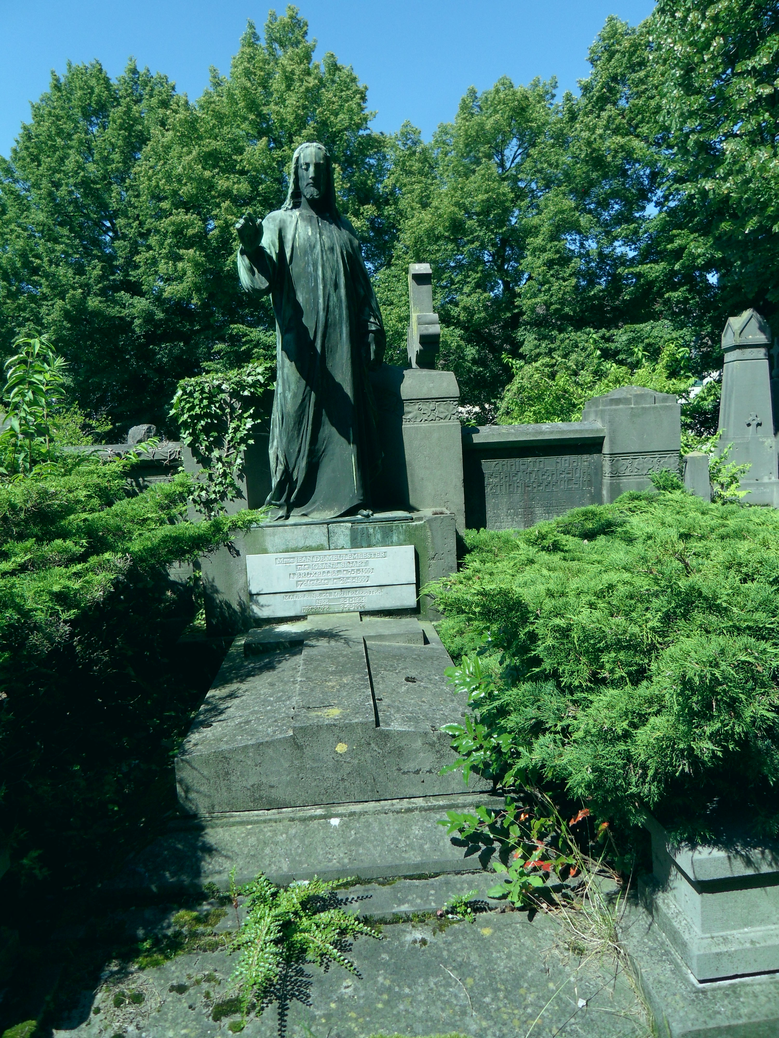 De graftombe van Alphonse De Meulemeester en zijn familie.